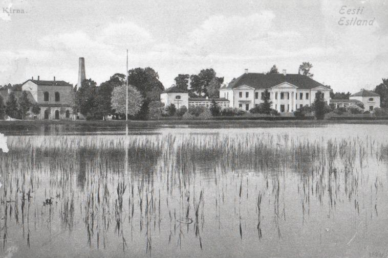 Kernu Manor, Estonia (year 1918)